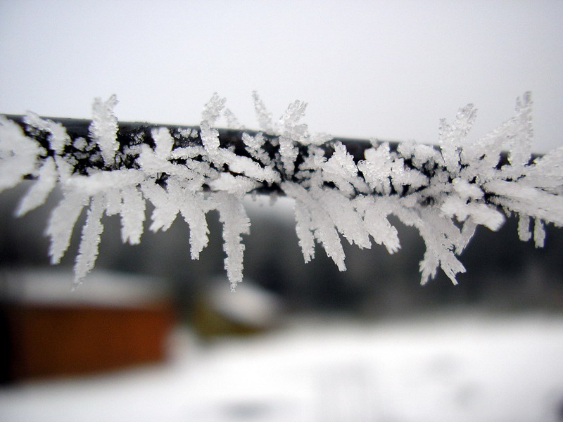 Hoar frost. Jonava district, Lithuania.